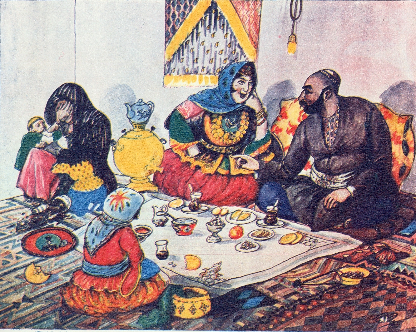 The "old" wife and the "new" one